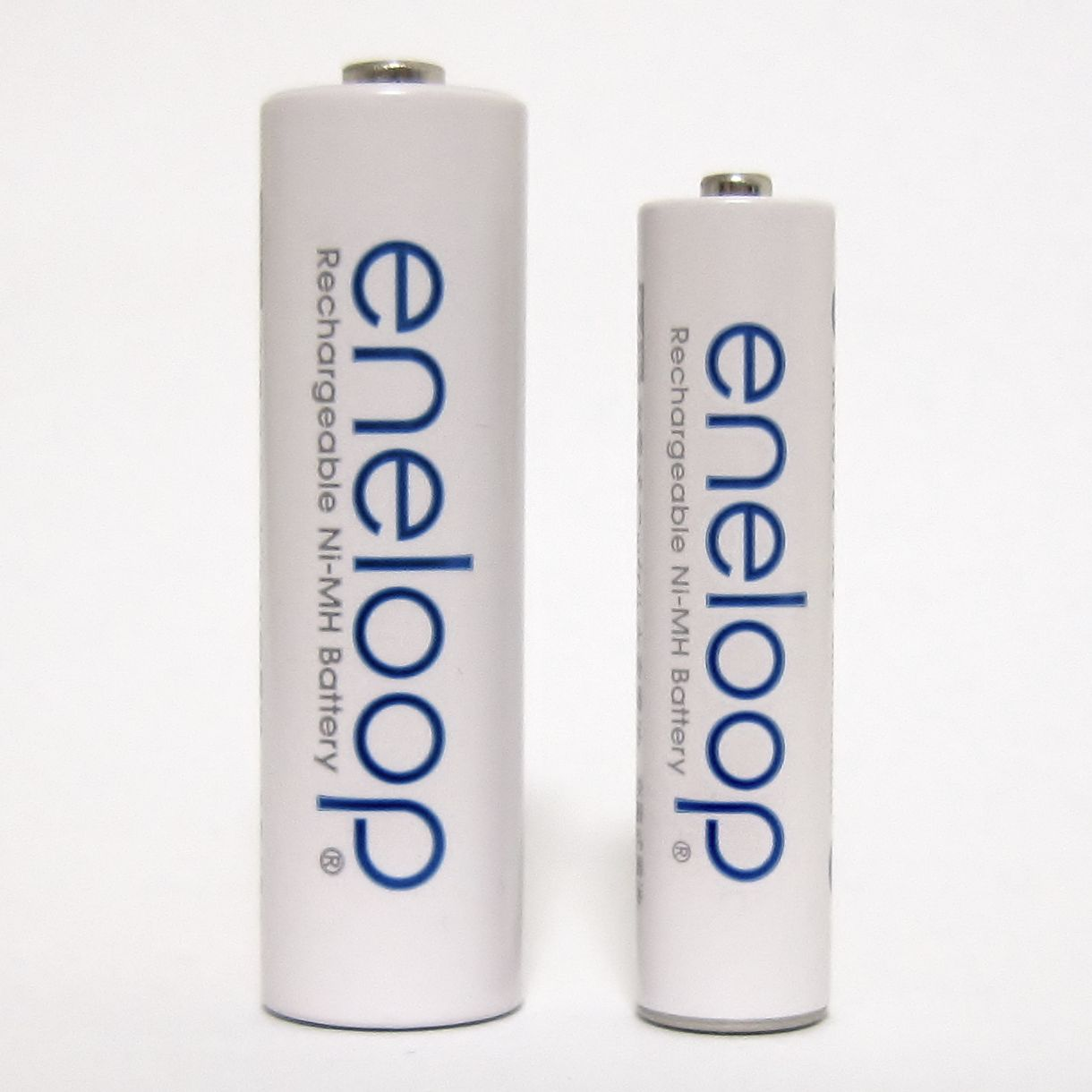 Sanyo eneloop HR-3UTG (left) and HR-4UTG (right).